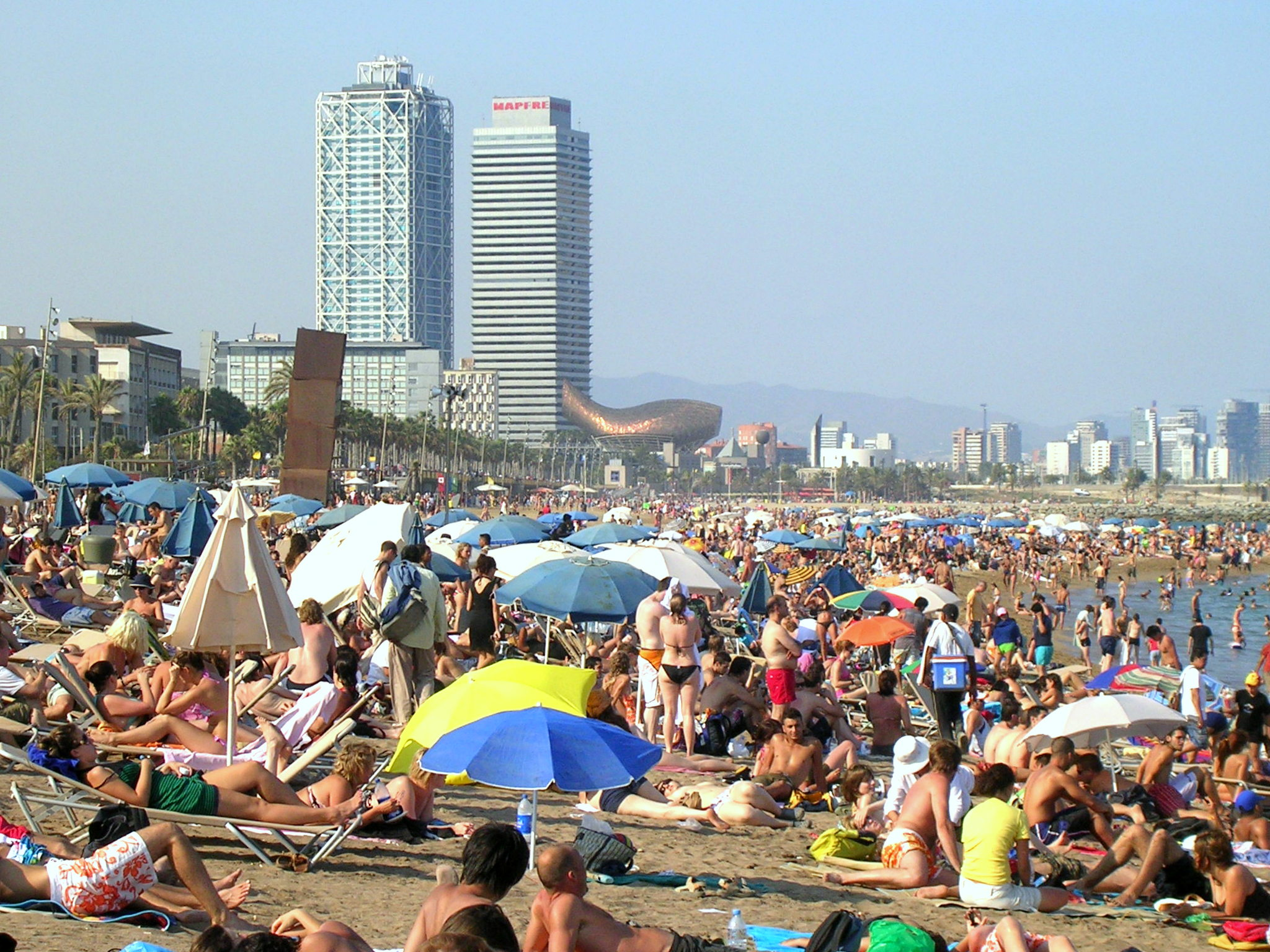 Barceloneta Beach in Barcelona / Strand Barceloneta in Barcelona